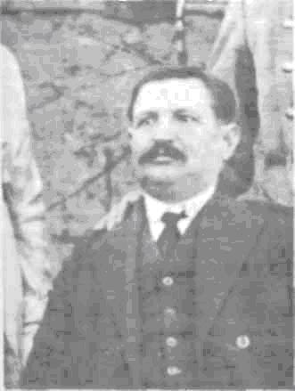 Georgi Golev.